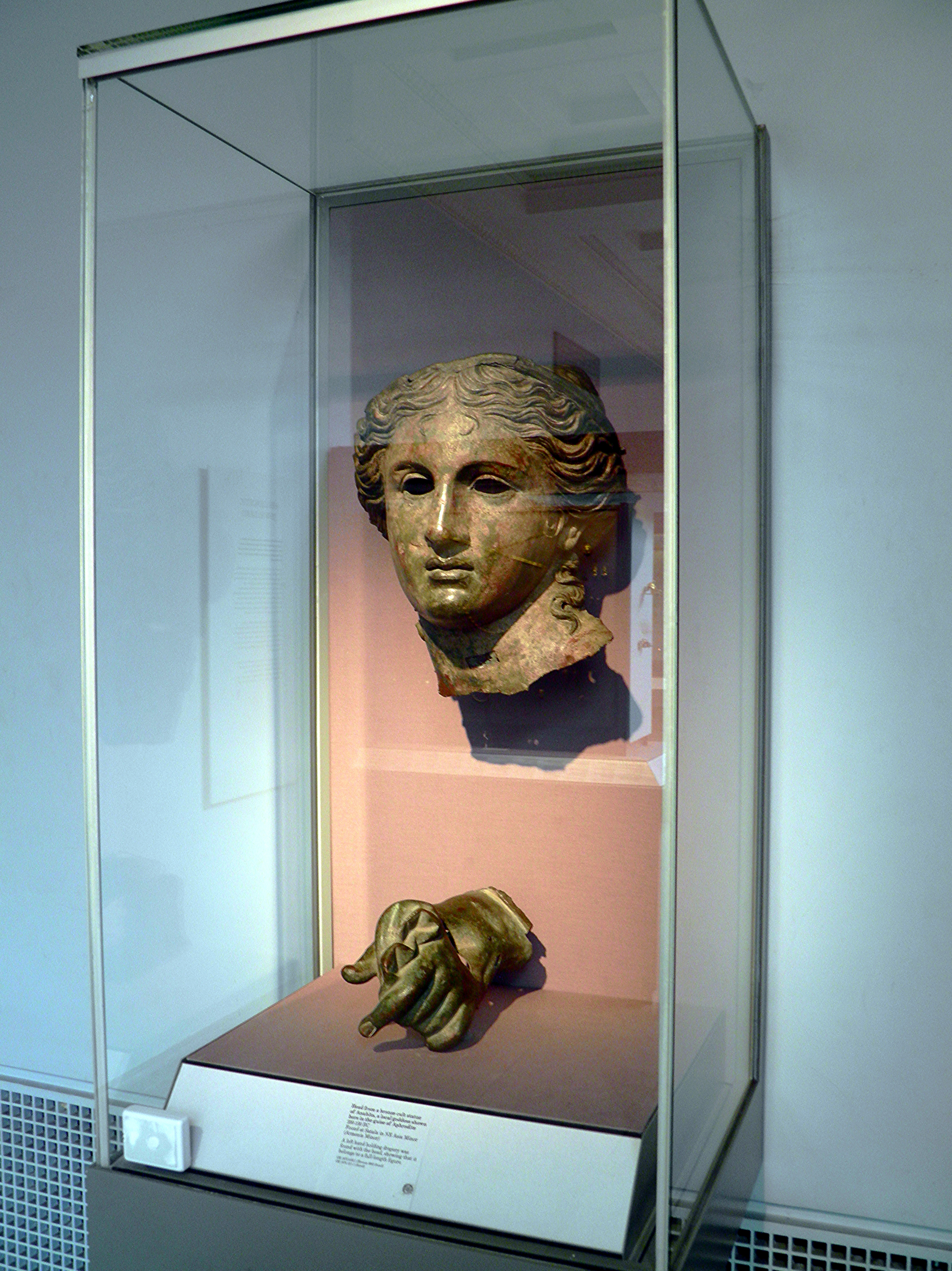 Hellenistic Greek, 1st century BC Found at the ancient city of Satala, modern Sadak, north-eastern Turkey In about 1872 a man digging his field on the site of ancient Satala struck with his pick-axe against this head. A bronze hand also lay nearby. The head made its way via Constantinople (modern Istanbul) and Italy to the dealer Alessandro Castellani, who eventually sold it to The British Museum. The hand was presented to the Museum a few years later. Despite rumours that the whole statue had previously been found, the body has never come to light. Although there is pick-axe damage to the top of the head, the face is well preserved. The eyes were originally inlaid with either precious stones or a glass paste, and the lips perhaps coated with a copper veneer. The statue has been identified as a nude Aphrodite, her left hand pulling drapery from a support at her side, like the famous statue of Aphrodite at Knidos by the fourth-century sculptor Praxiteles. It has also been suggested that the statue represents the Iranian goddess Anahita, who was later assimilated with the Greek goddesses Aphrodite and Athena. The size of the head suggests that it came from a cult statue, though excavations made at Satala in 1874 by Sir Alfred Biliotti, the British vice-consul at Trebizond, failed to discover a temple there. The statue may date to the reign of Tigranes the Great, king of Armenia (97-56 BC), whose rule saw prosperity throughout the region. The thin-walled casting of the bronze head suggests a late Hellenistic date. H.B. Walters, Catalogue of bronzes, Greek, R (London, 1899) C.C. Mattusch, Classical bronzes (Cornell University Press, 1996) Head, in the British Museum online catalogue Hand, in the British Museum online catalogue